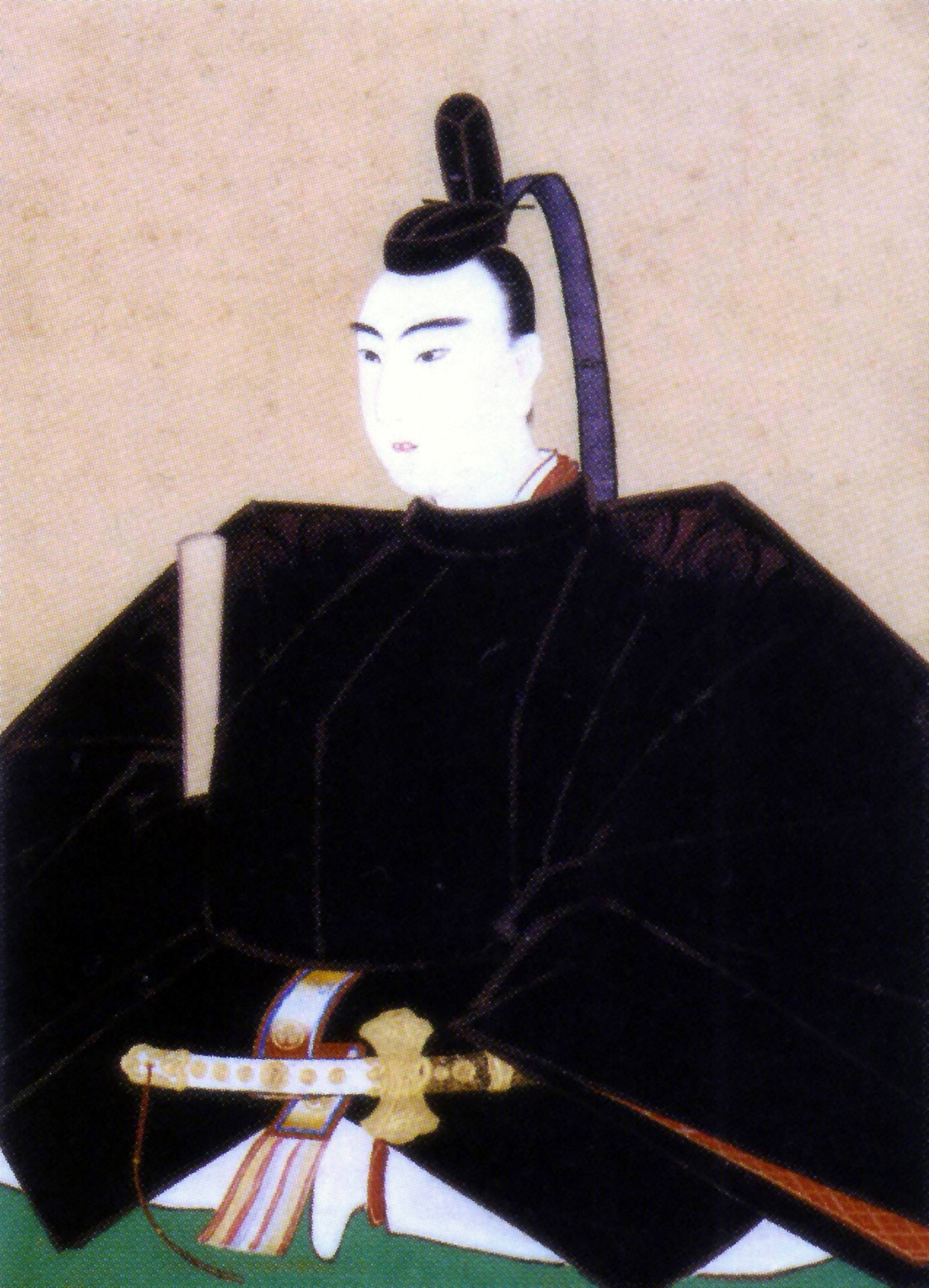 portrait of Ikeda Yoshitaka(the 11th feudal lord of Tottori clan)